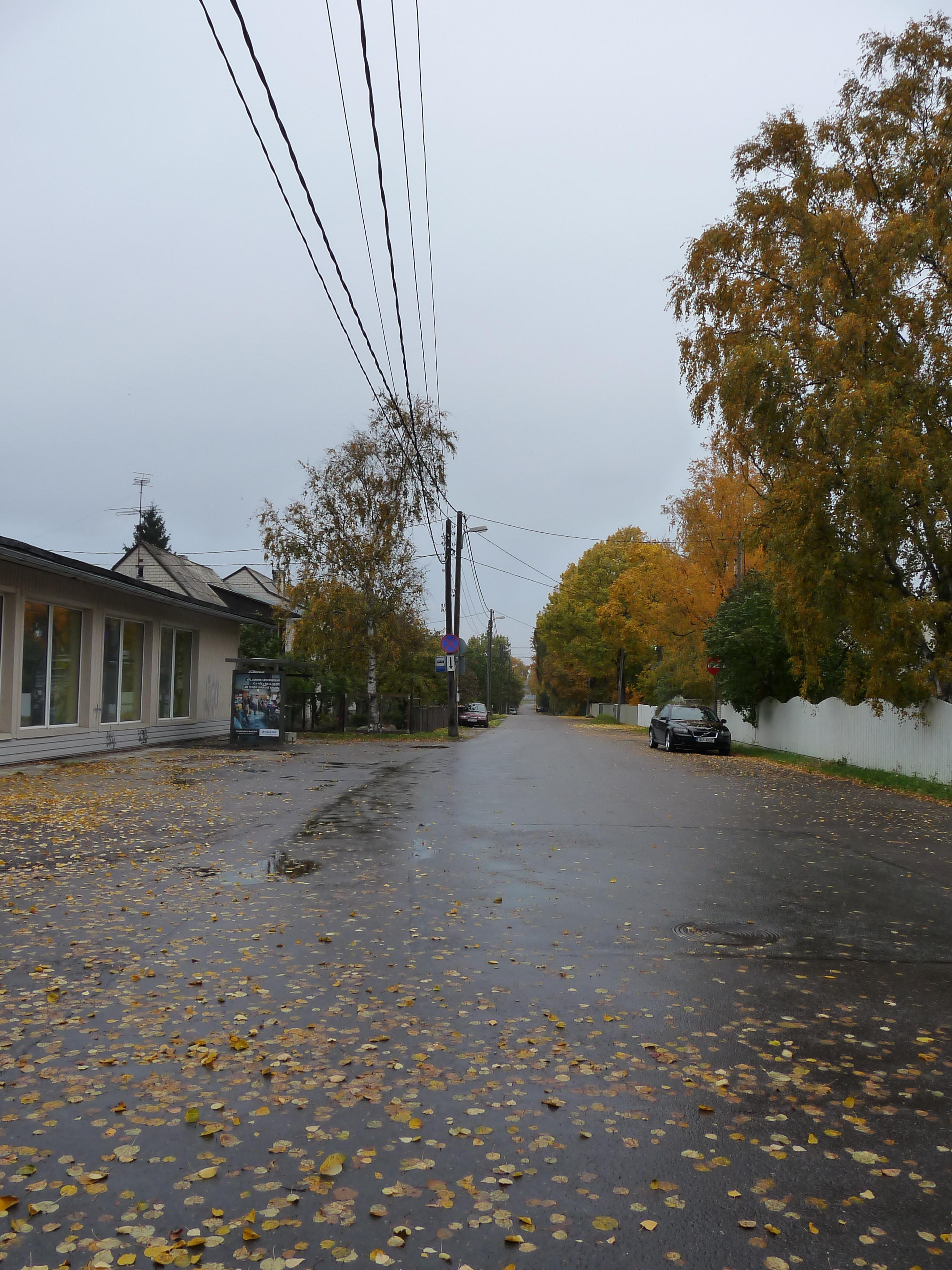 Leete street in Tallinn, Estonia